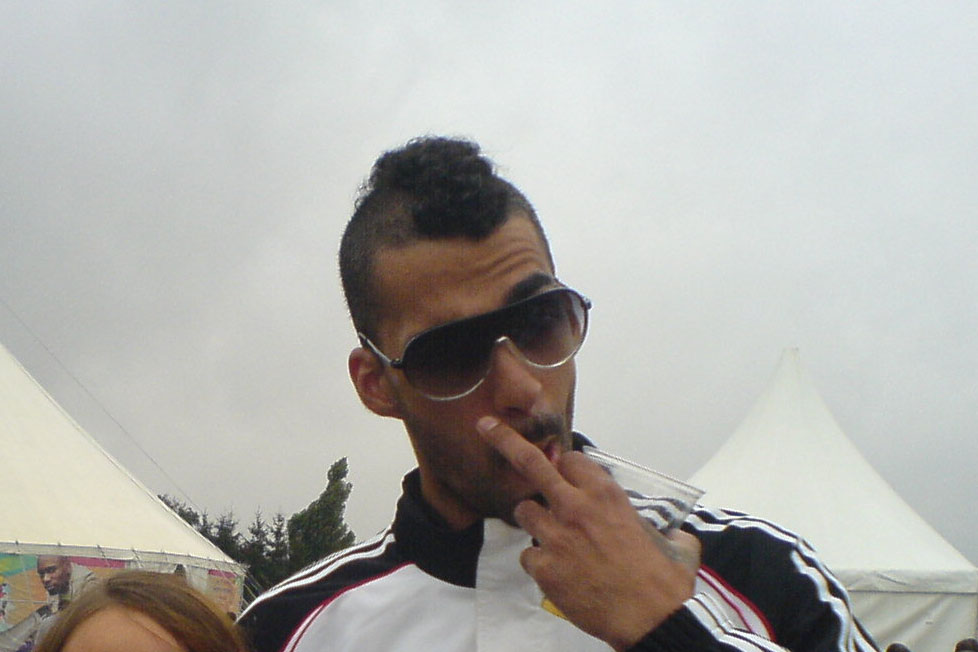 Harris of the "Specializtz"